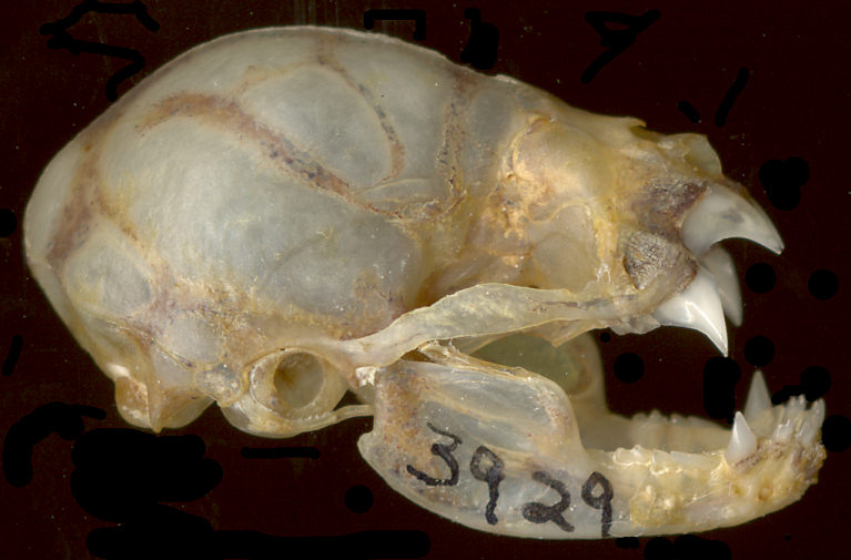 Skull and mandible of the Common Vampire Bat (Desmodus rotundus), UTEP Biodiversity Collections specimen M 3929.